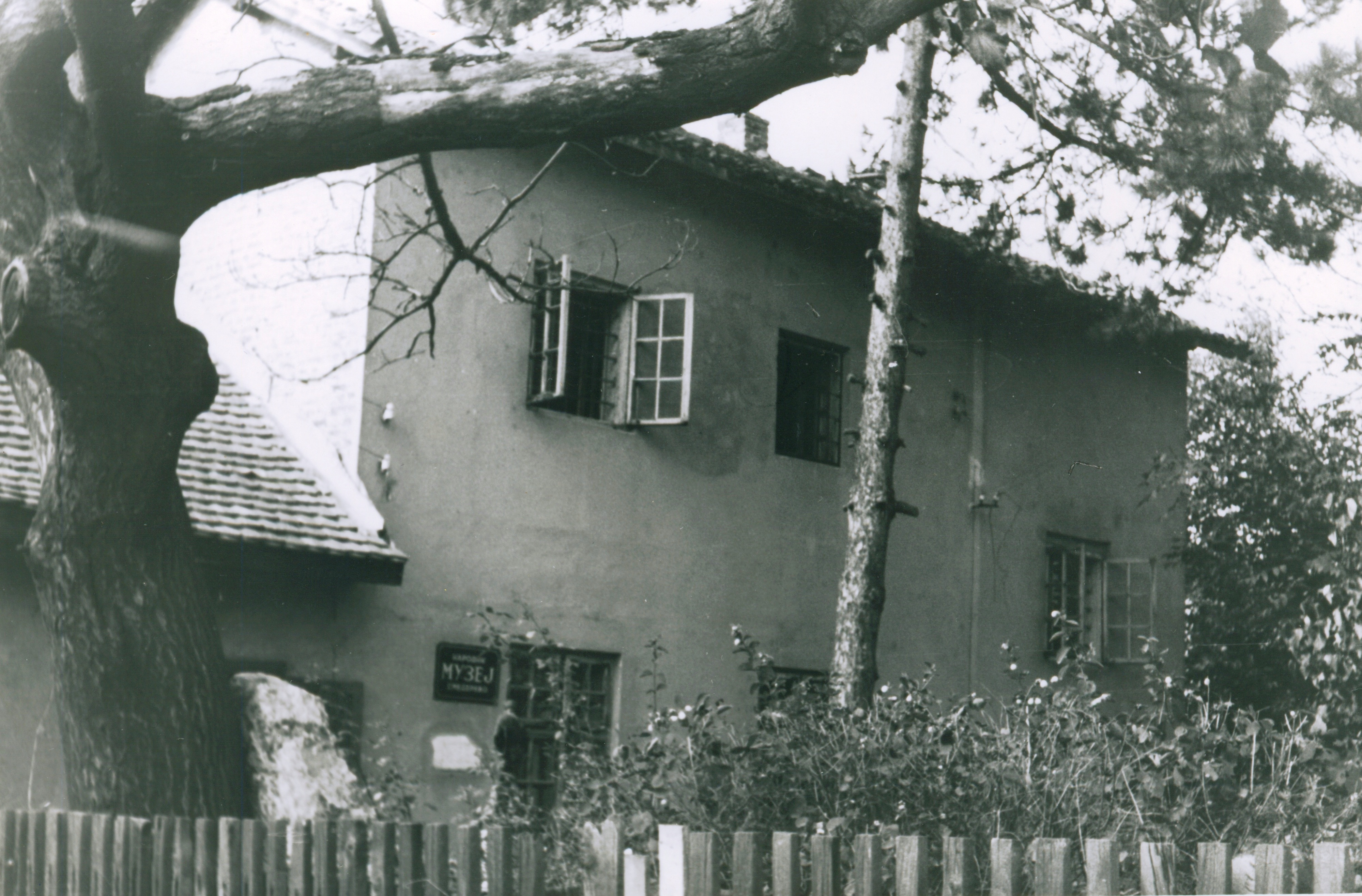 The old building of the Museum in Smederevo